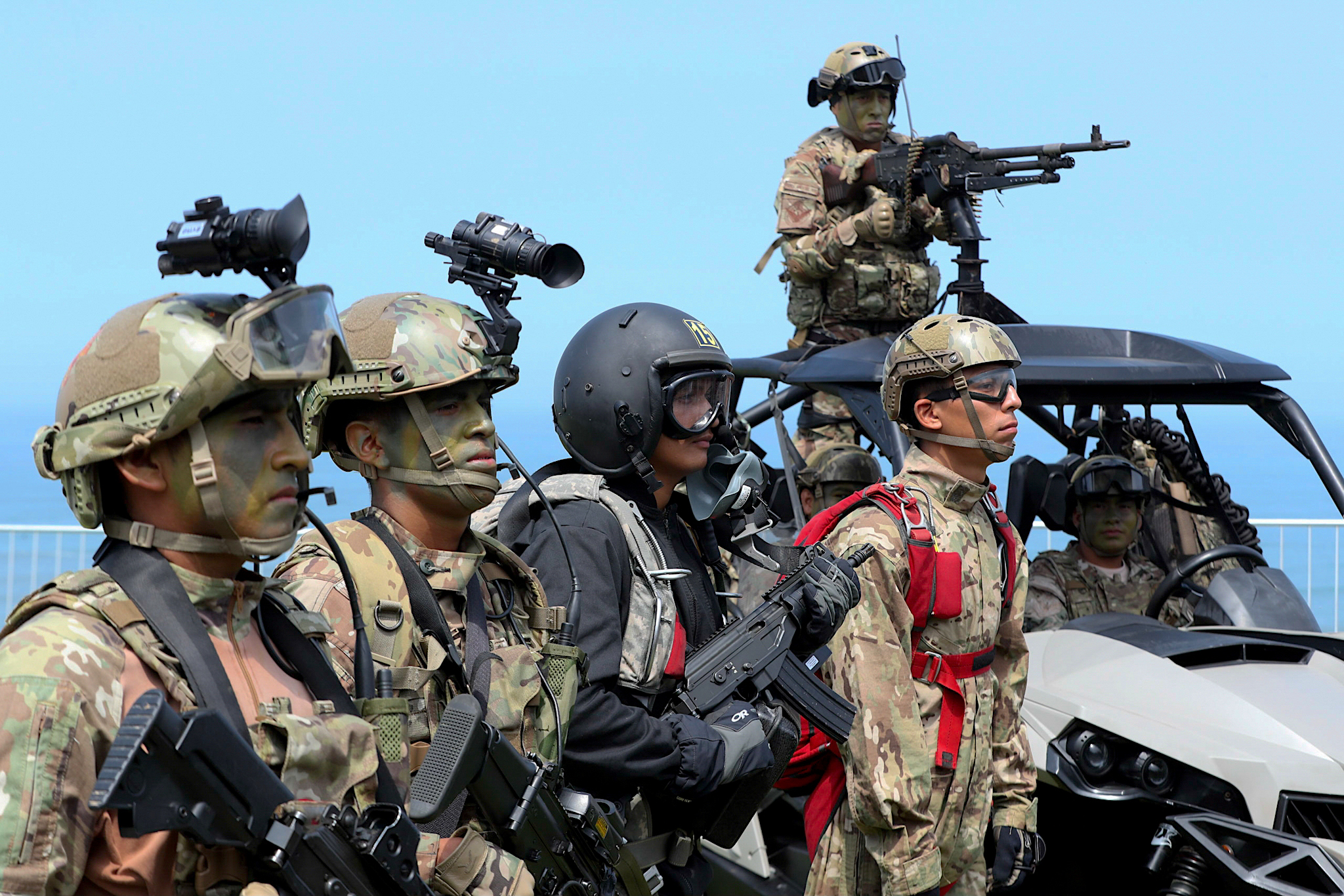 Peruvian Air Force personnel in March 2018.